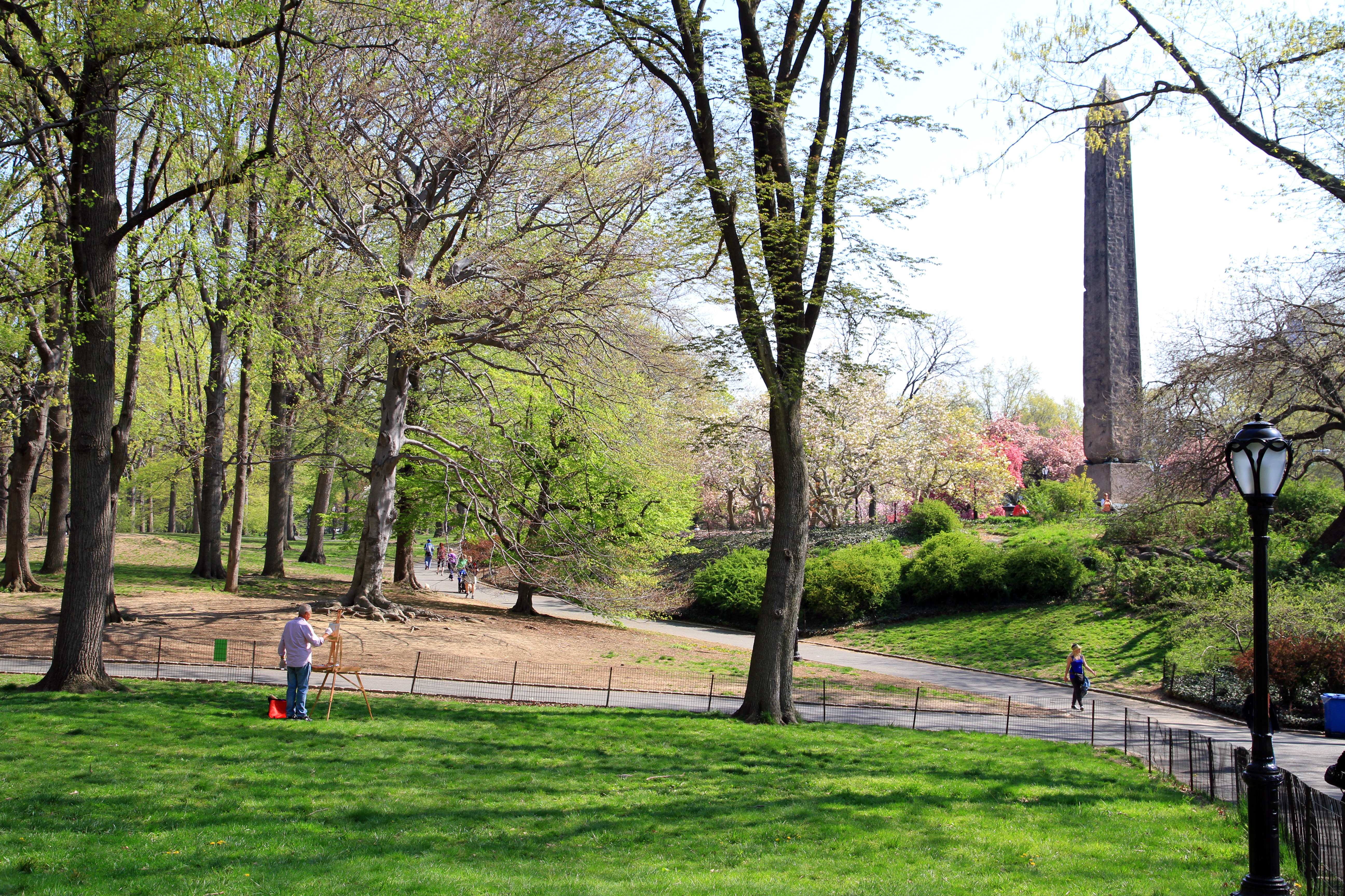 Cleopatra's Needle